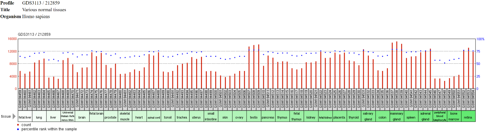 TMEM128 RNA expression based on human tissues from profile GDS3113.